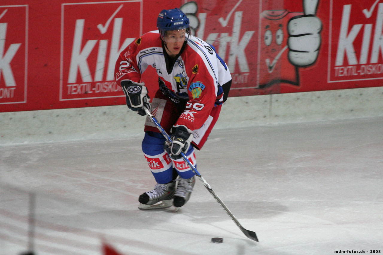 EHC Dortmund - #29 - Antti-Jussi Miettinen